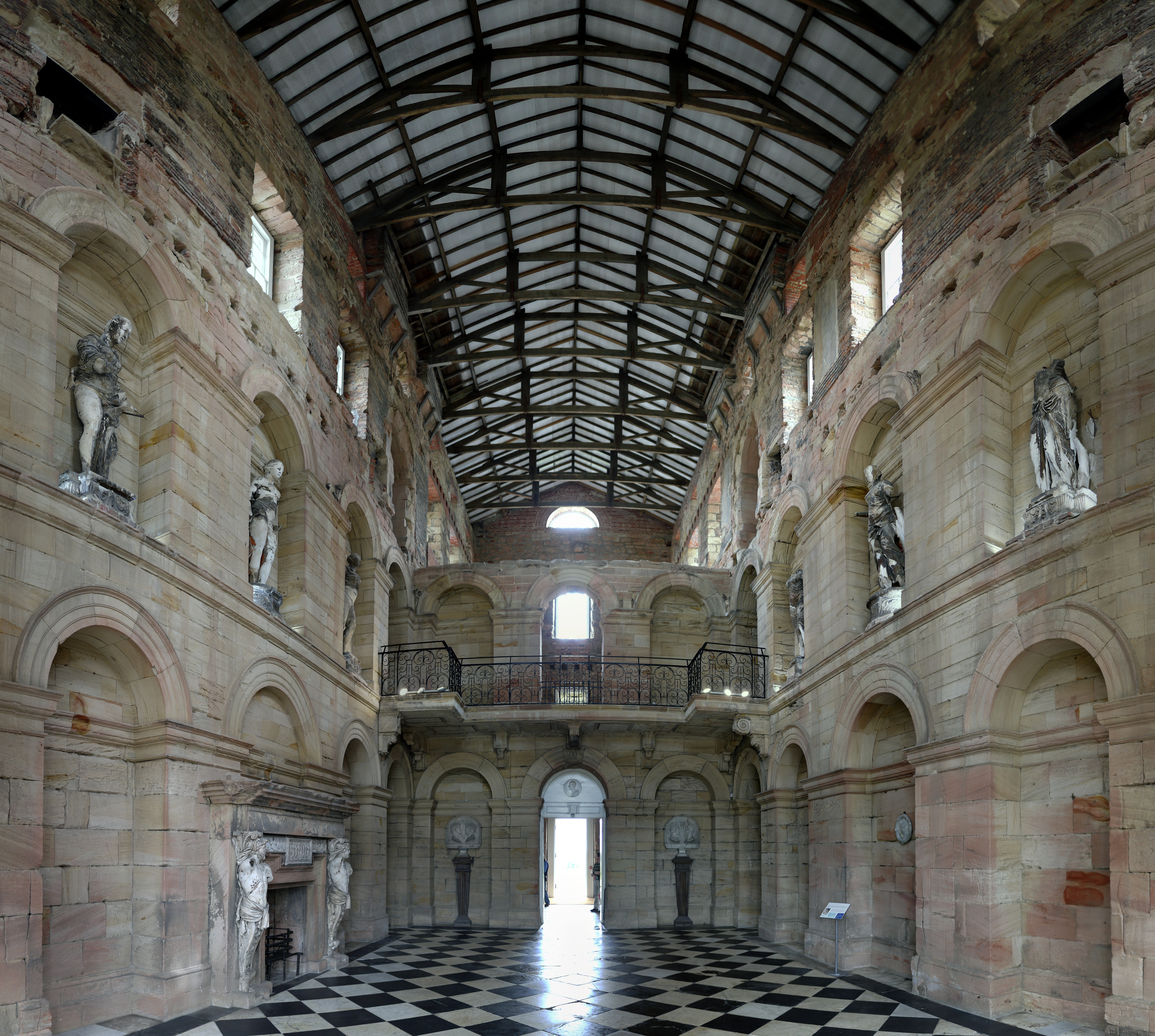 Seaton Delaval Hall central block inside